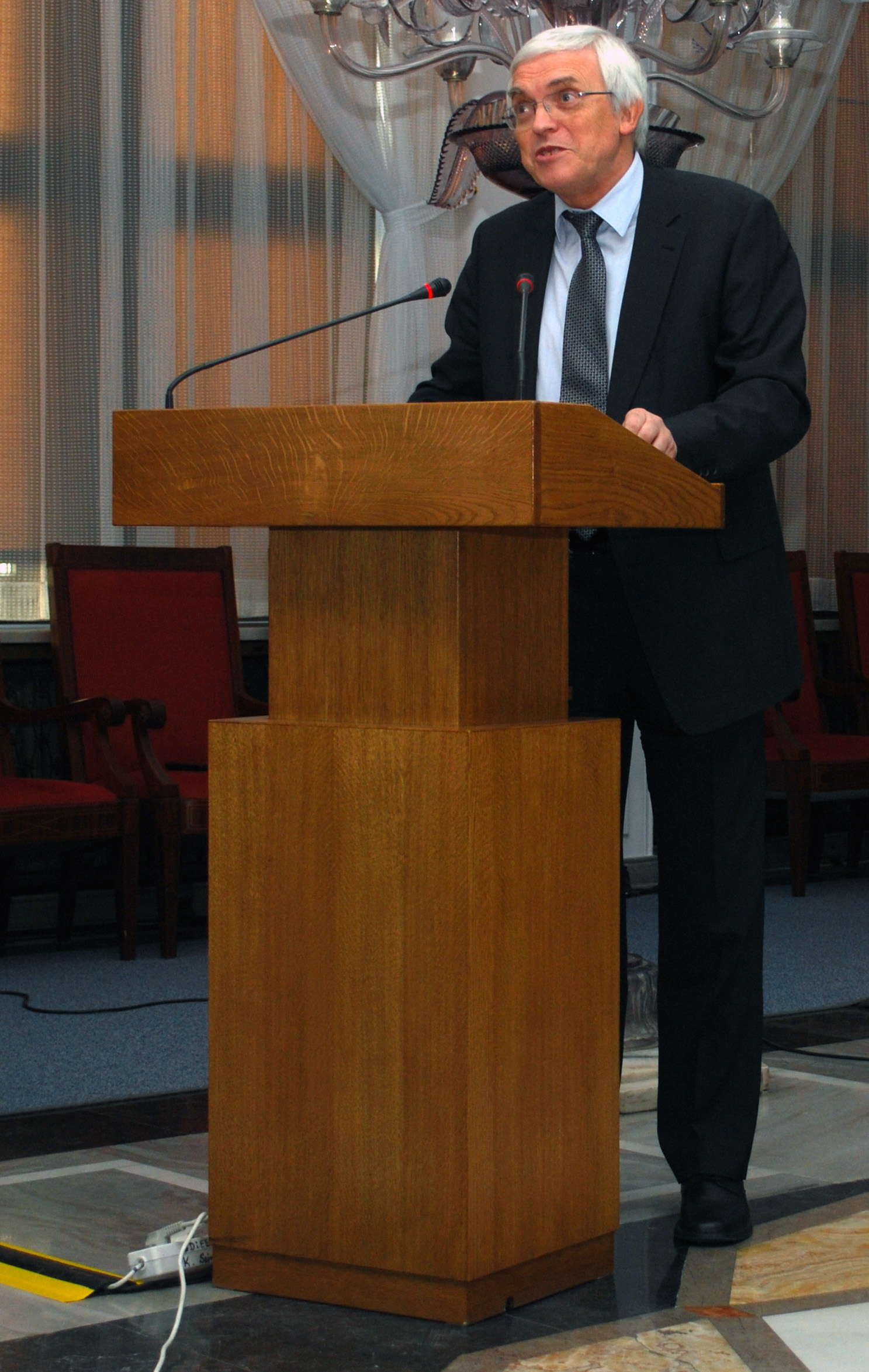 Open Educational Resources in Poland Conference, Polish Parliament. prof. Marek Niezgódka, ICM UW.